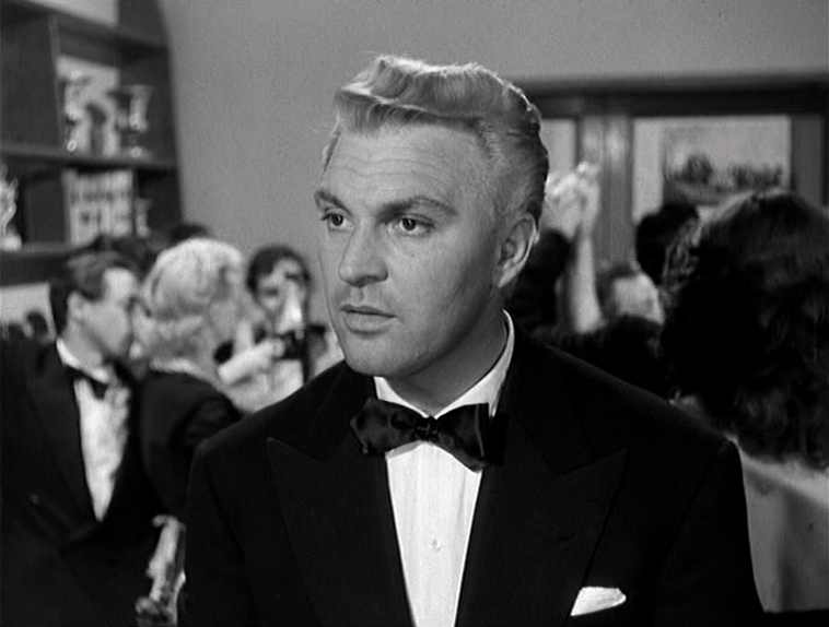 screenshot from the film Il bidone